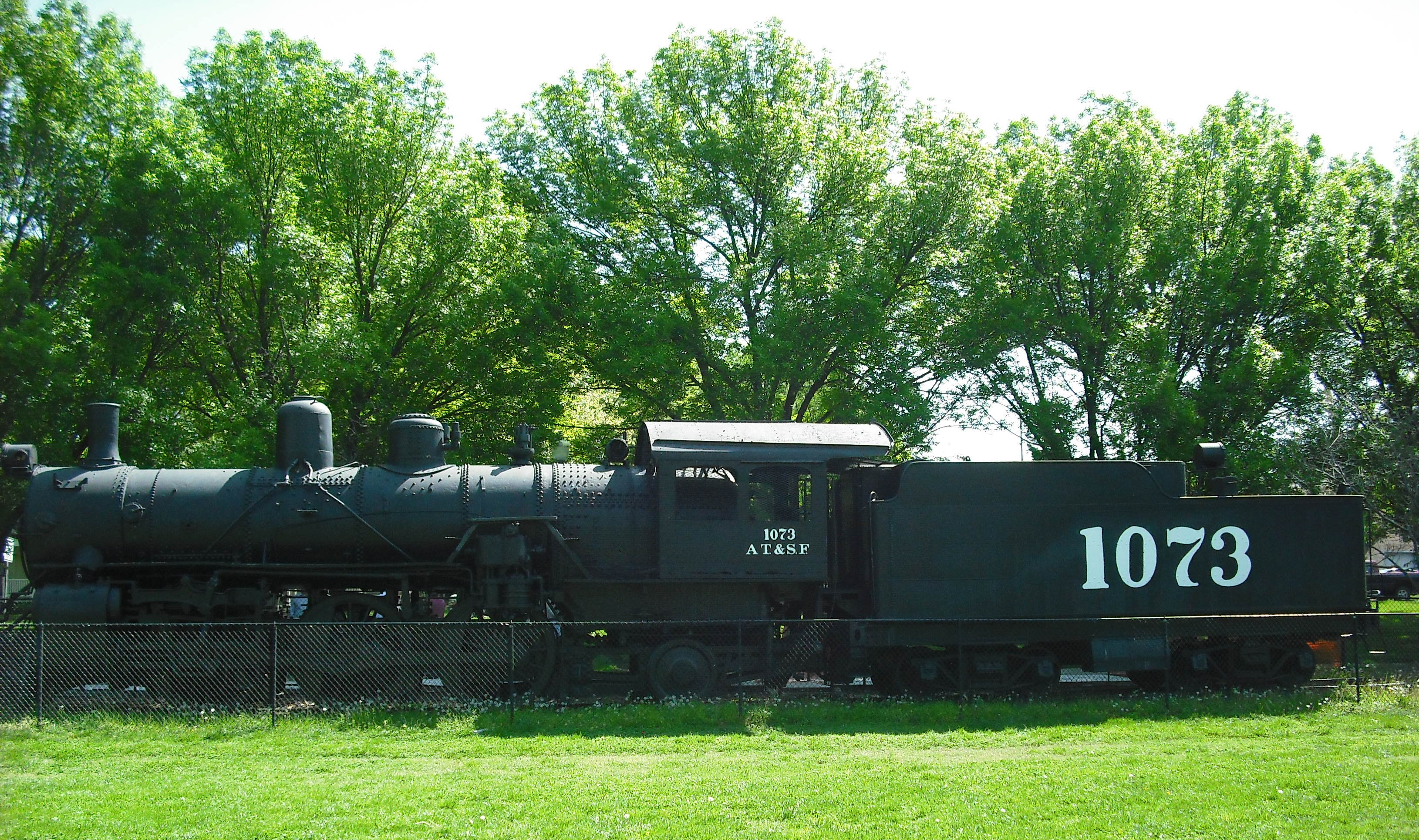 AT&SF 1073, a 1050-class 2-6-2 locomotive (Baldwin 20333 of 1902), located in Watson Park in downtown Lawrence, Kansas.